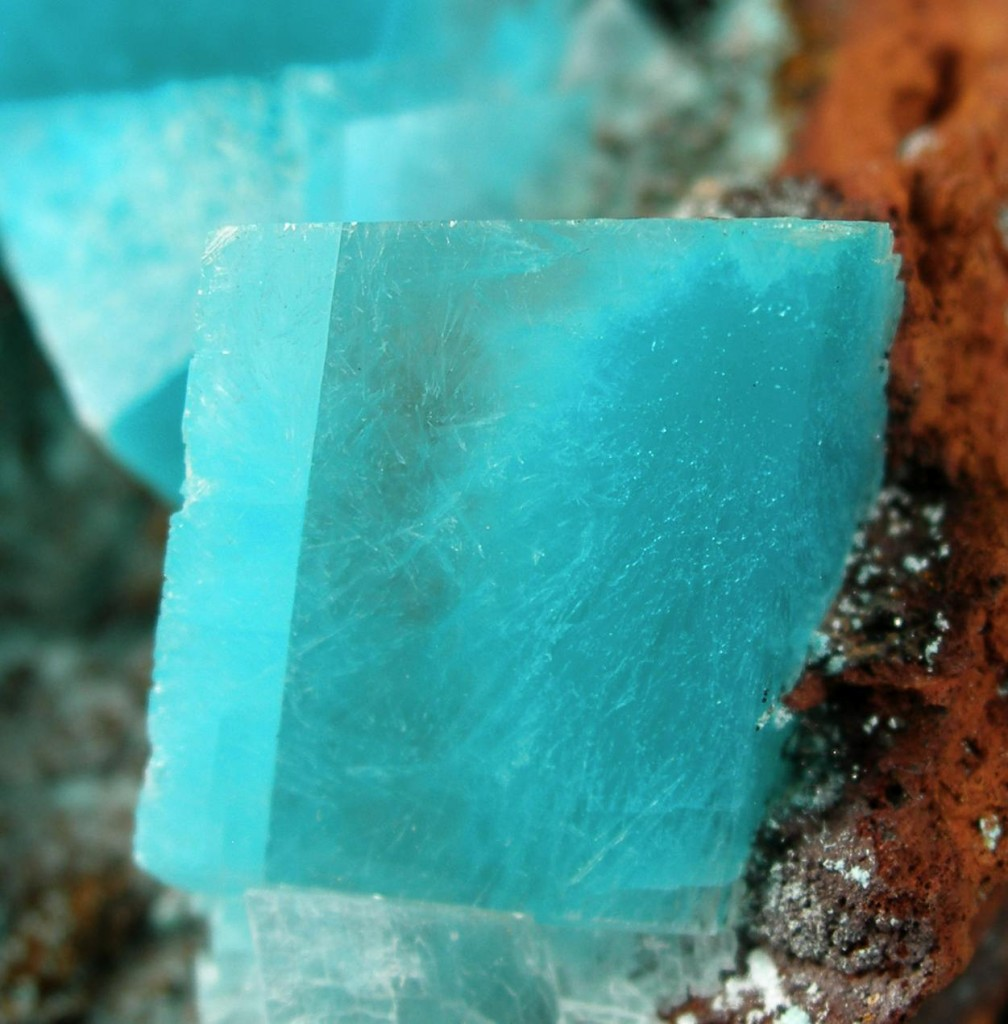 Aurichalcite, Calcite Locality: Ojuela Mine, Mapimí, Municipio de Mapimí, Durango, Mexico (Locality at ) Size: 5.8 x 4.5 x 3.9 cm. Two well-formed rhombs of calcite, to 1.75 cm across, which are heavily invested with fibrous aurichalcite, site nicely in this vug. The crystals are glassy and translucent to transparent, with an exceptional teal color.